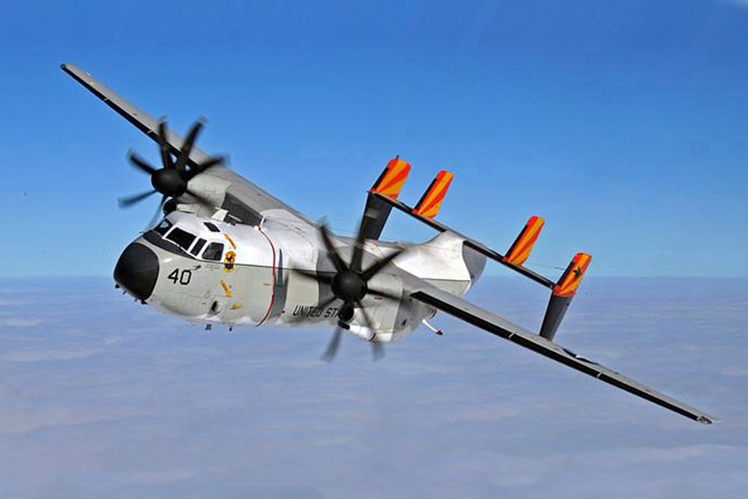 A U.S. Navy Grumman C-2A Greyhound of fleet logistics support squadron VRC-40 Rawhides in flight on 29 October 2009. Note that the C-2 is equipped with the 8-blade Navy Propeller 2000 (NP-2000). Upgraded aircraft also receive a Communication, Navigation, Surveillance/Air Traffic Management (CNS/ATM) system to reduce radio channel congestion and. Also added was a system combining Global Positioning System (GPS) equipment and an inertial navigation system, allowing flight crews to perform precise landing approaches.